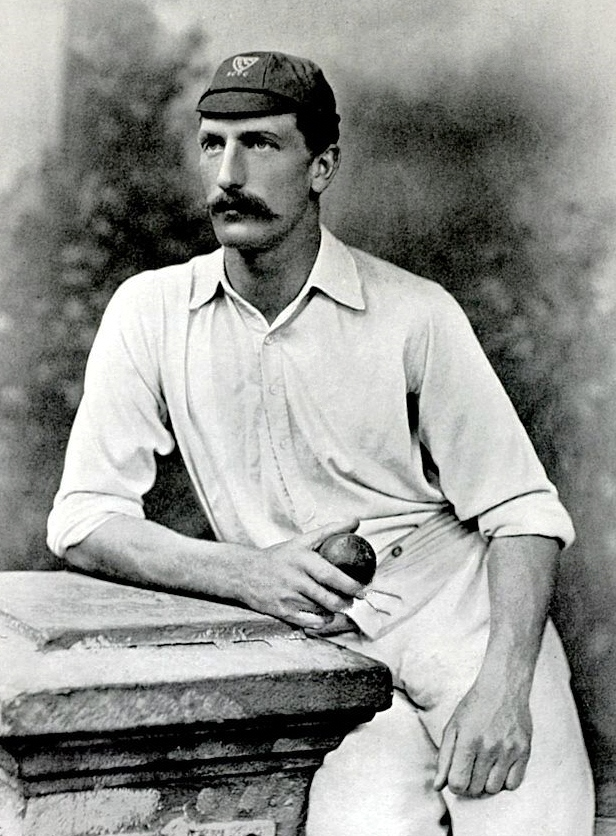 Sport, Cricket, Circa 1895, Charles Aubrey Smith, played for Sussex from 1882-1896